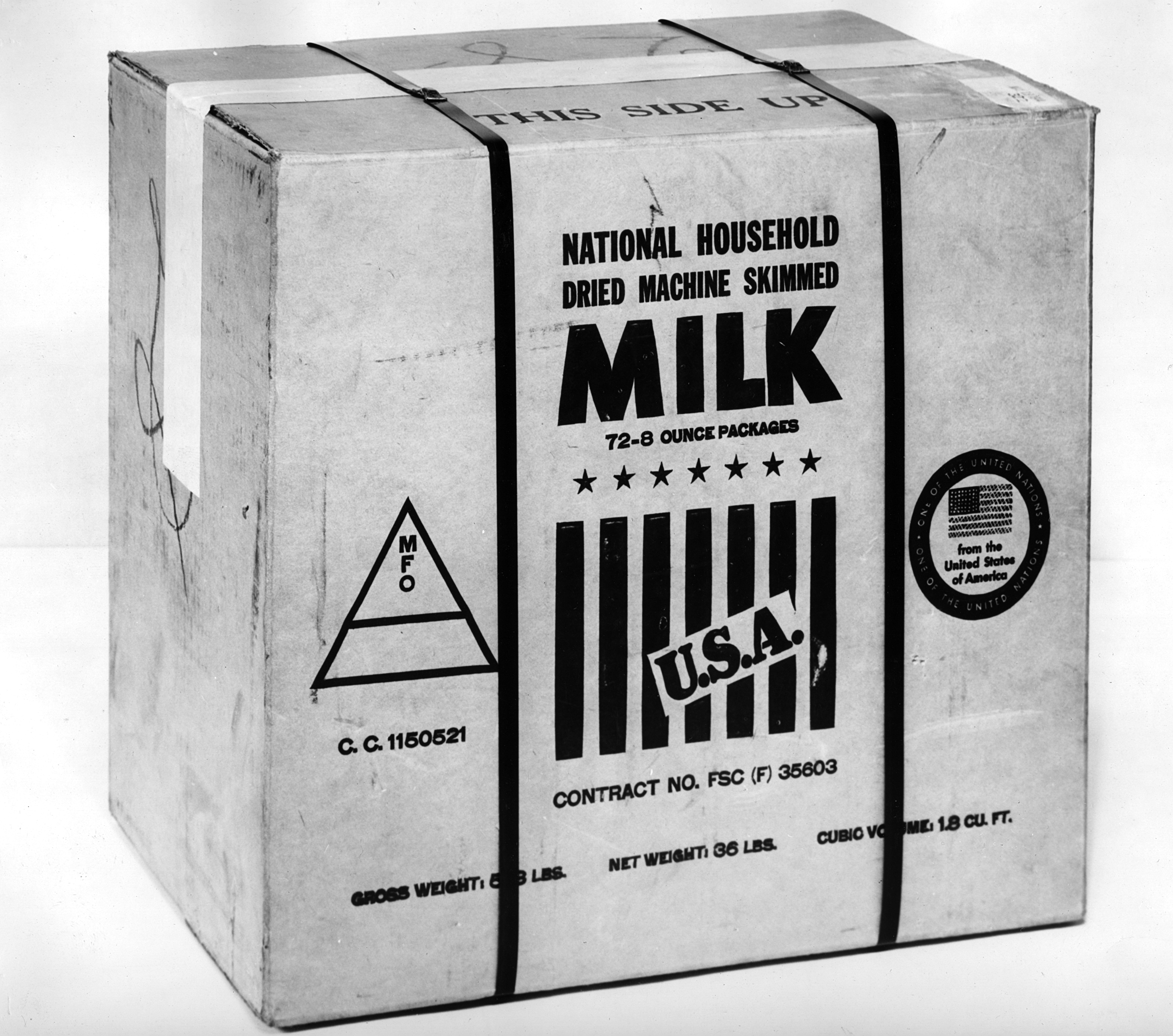 National household dried machine skimmed milk. U. S. produced dry milk for food export in June 1944. Photo courtesy of National Archives and Records Administration.